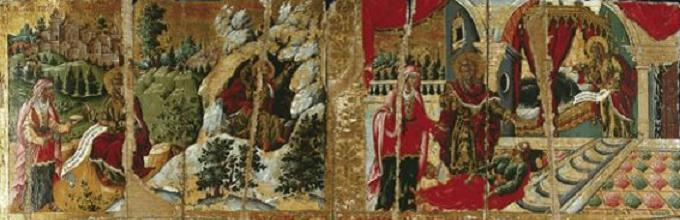 Prophet Elijah meets the widow of Sarepta (or Zareptha) (left) and rises her son (right)